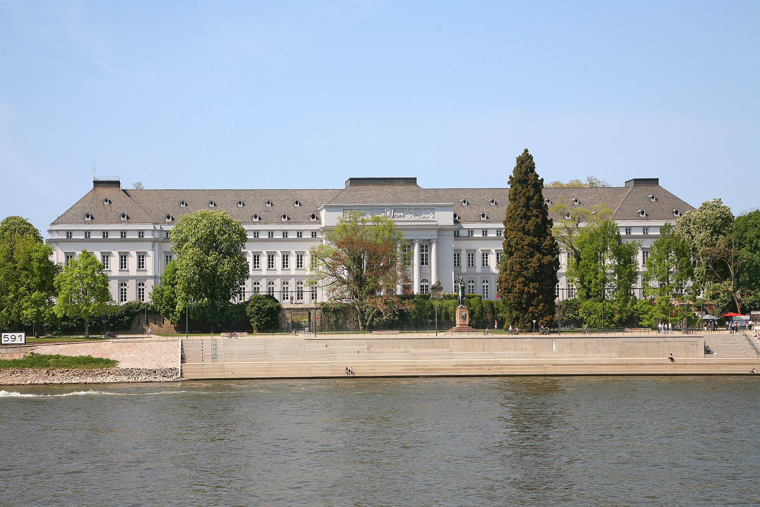 The "Kurfürstliche Schloss" in Koblenz was built between 1777 and 1793 in the style of French early classicalism